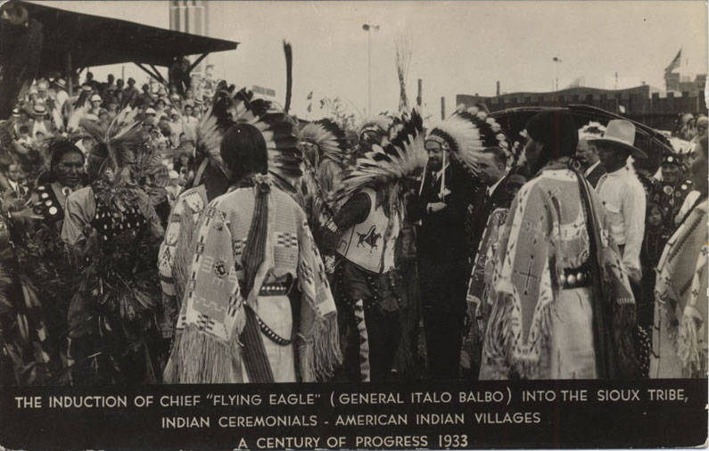 The Induction of Chief Flying Eagle (General Italo Balbo) into the Sioux Tribe, Indian Ceremonials, American Indian Villages, A Century of Progress 1933